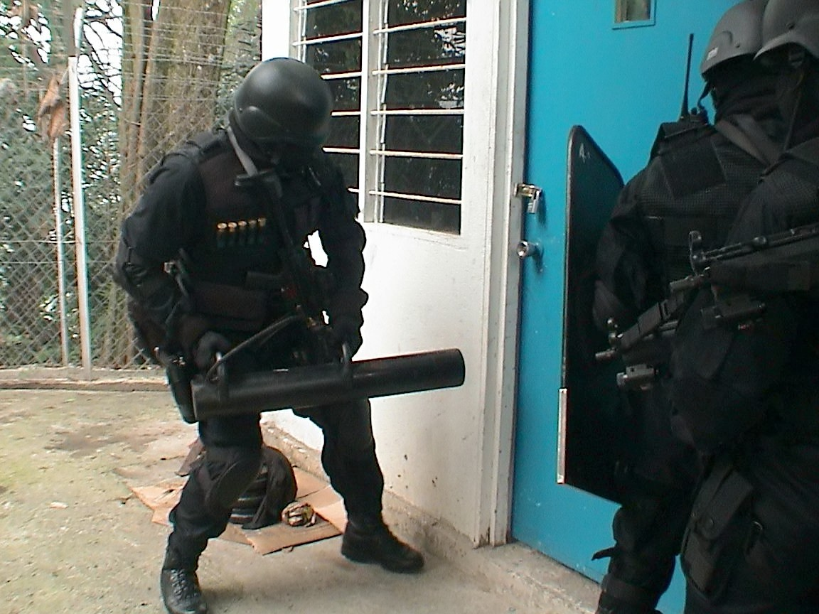 The PGK Detachment A using the battering ram to broke through the door while other members standby to rushed into the kill house during the CQC drill. The unit also involved in an operations to recapture a Singaporean Jemaah Islamiyah (JI) terrorist leader, Mas Selamat Kastari in Kampung Tawakal, Skudai, Johore. Taken by me at PGK A Special Operations Killing House, Bukit Aman, Kuala Lumpur.